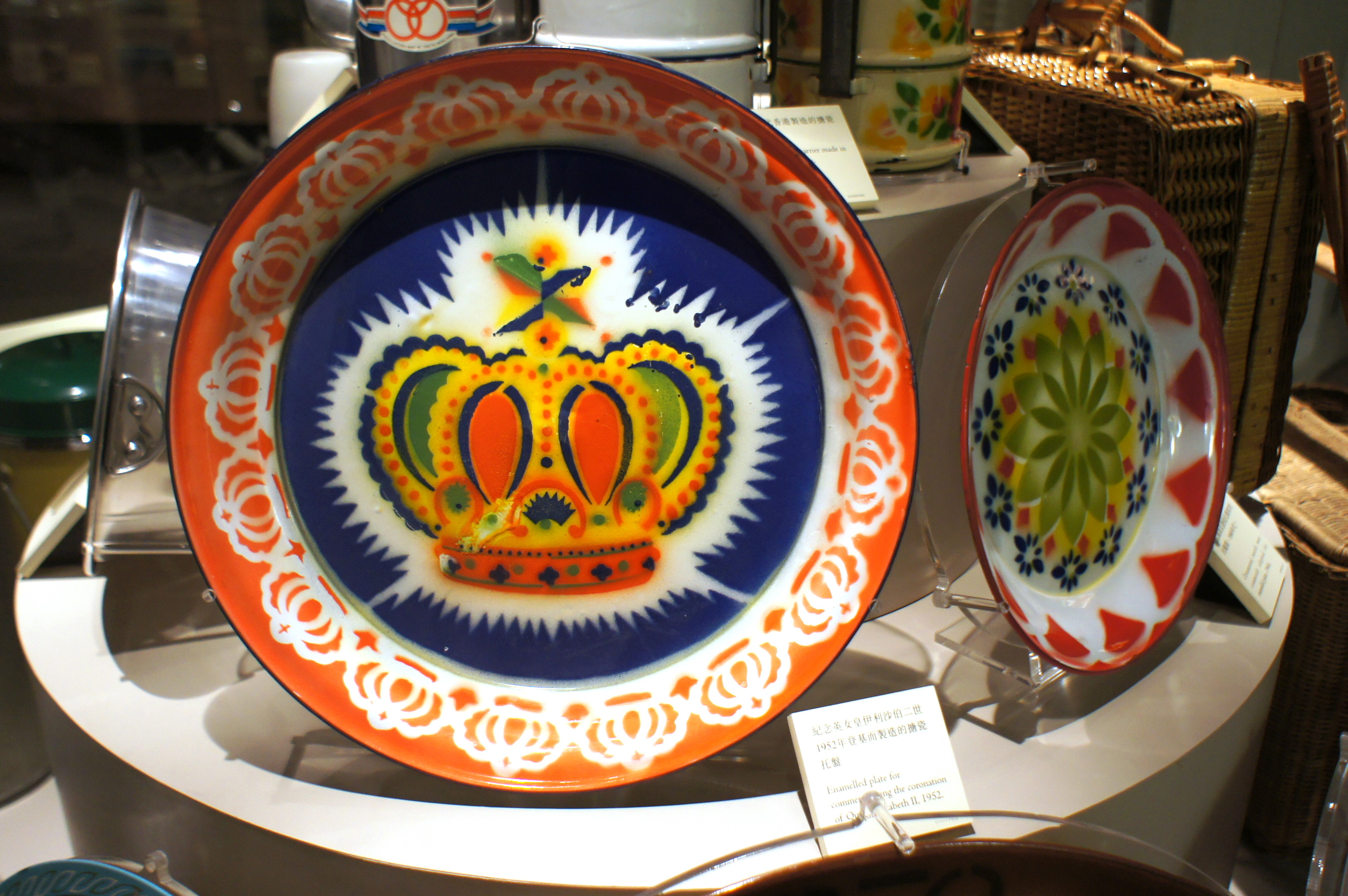 Enamelled plate for commemorating coronation of Queen Elizabeth II (Collections of the Hong Kong Museum of History)